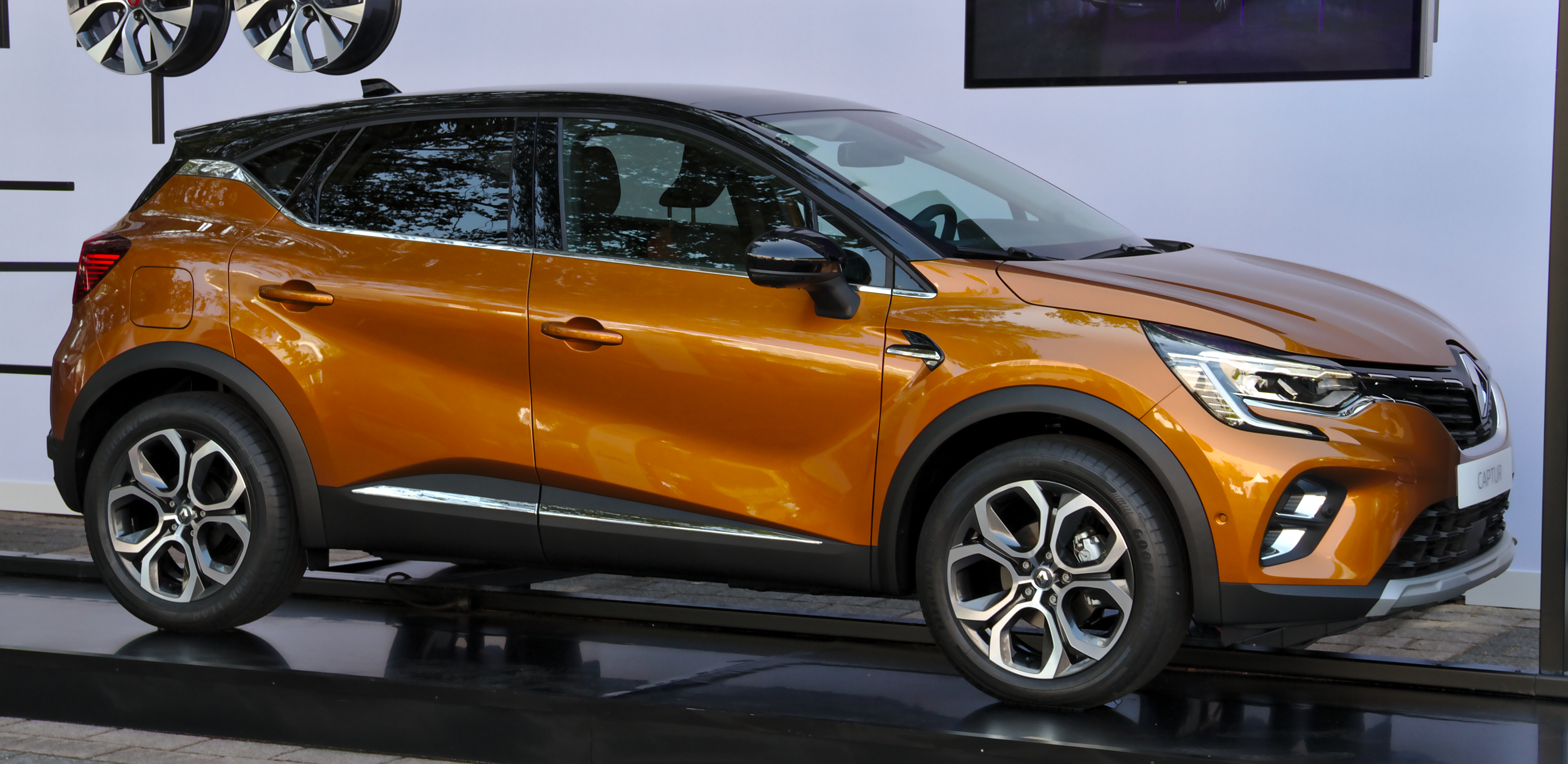 Renault_Captur_II at IAA 2019